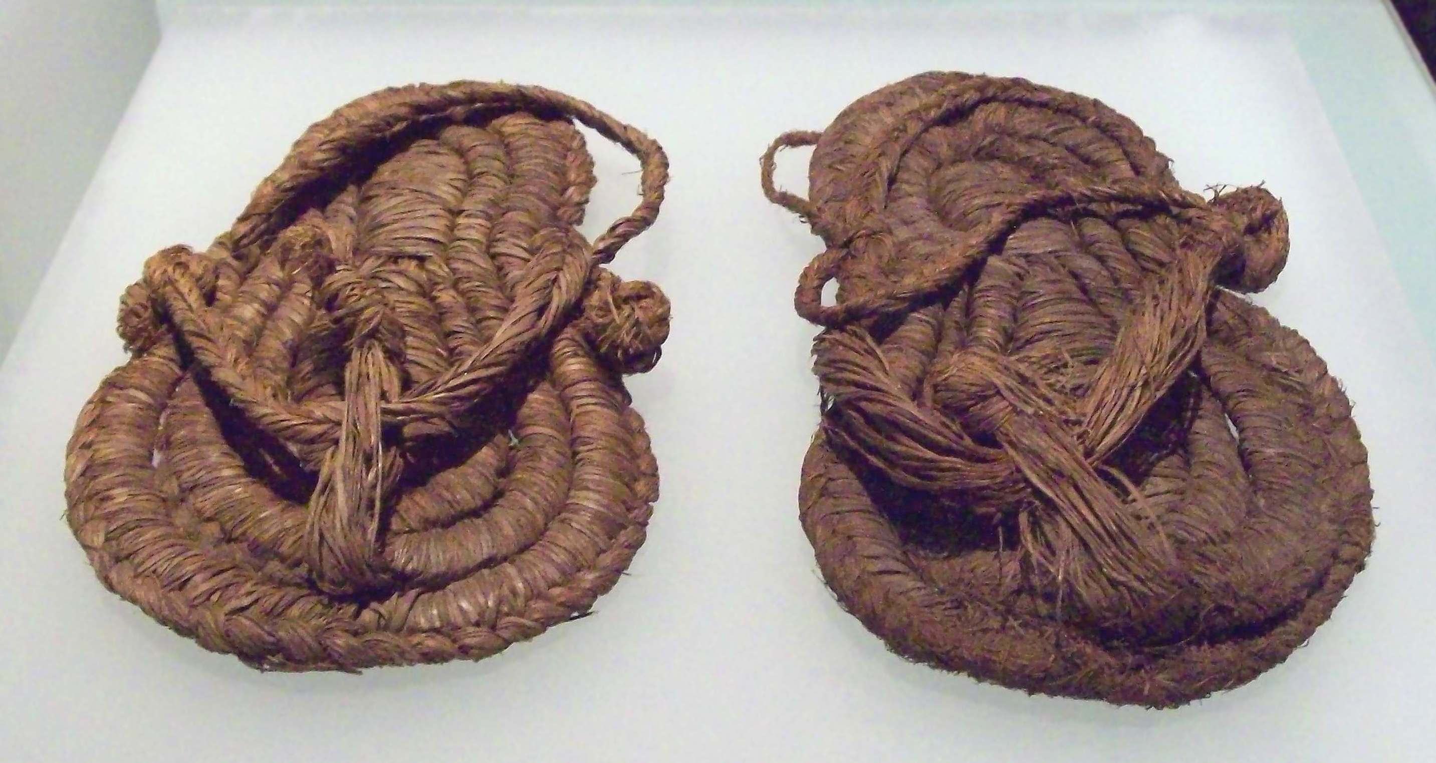 A pair of sandals from the Middle Neolithic.